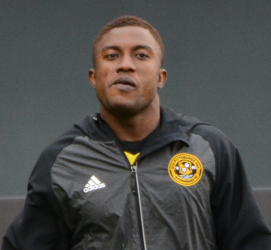 Taken during a USL regular season match between FC Cincinnati and Pittsburgh Riverhounds at Nippert Stadium in Cincinnati, USA on April 21, 2018.